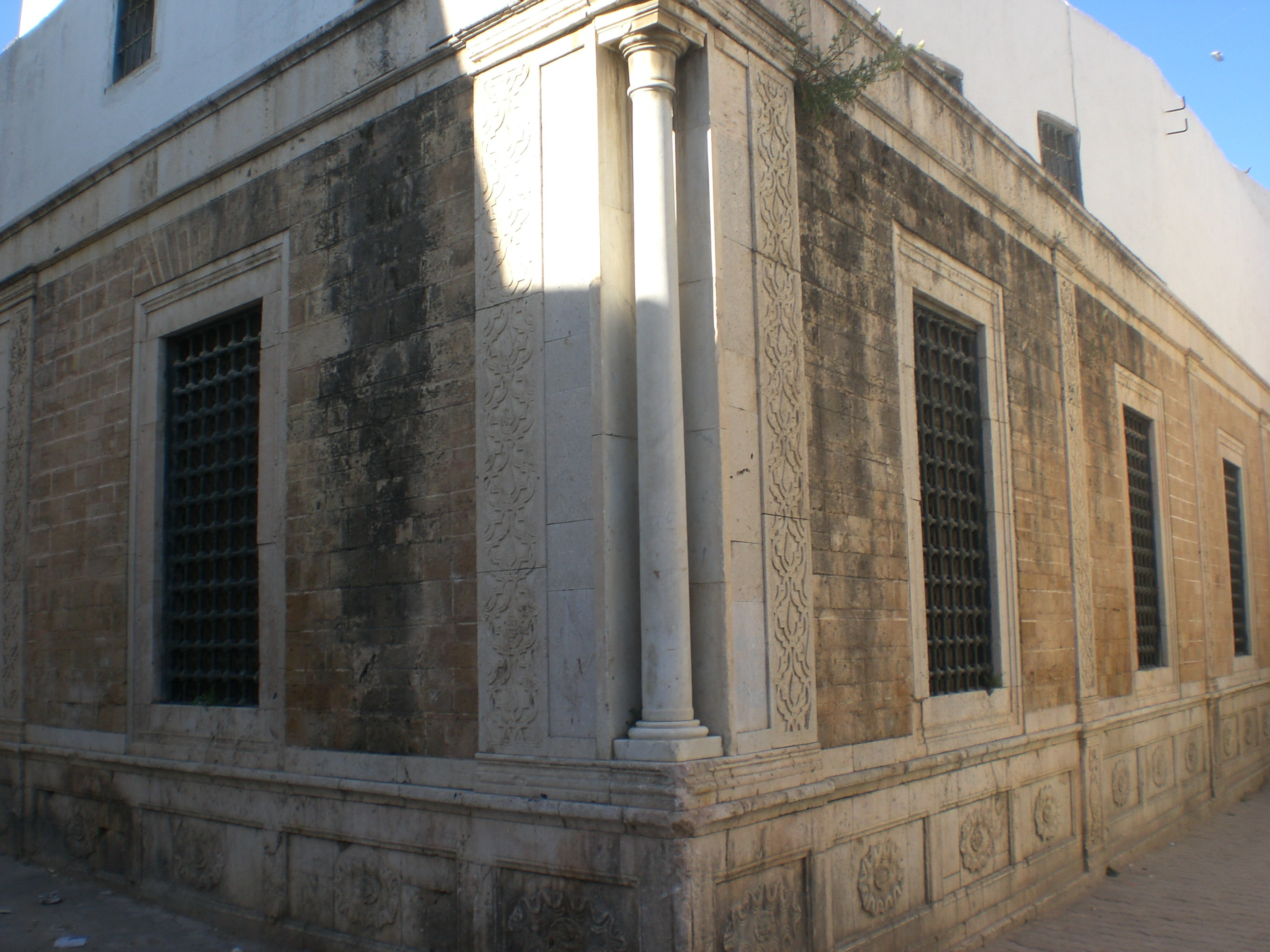 The Husseinite mauseleum in Tunis